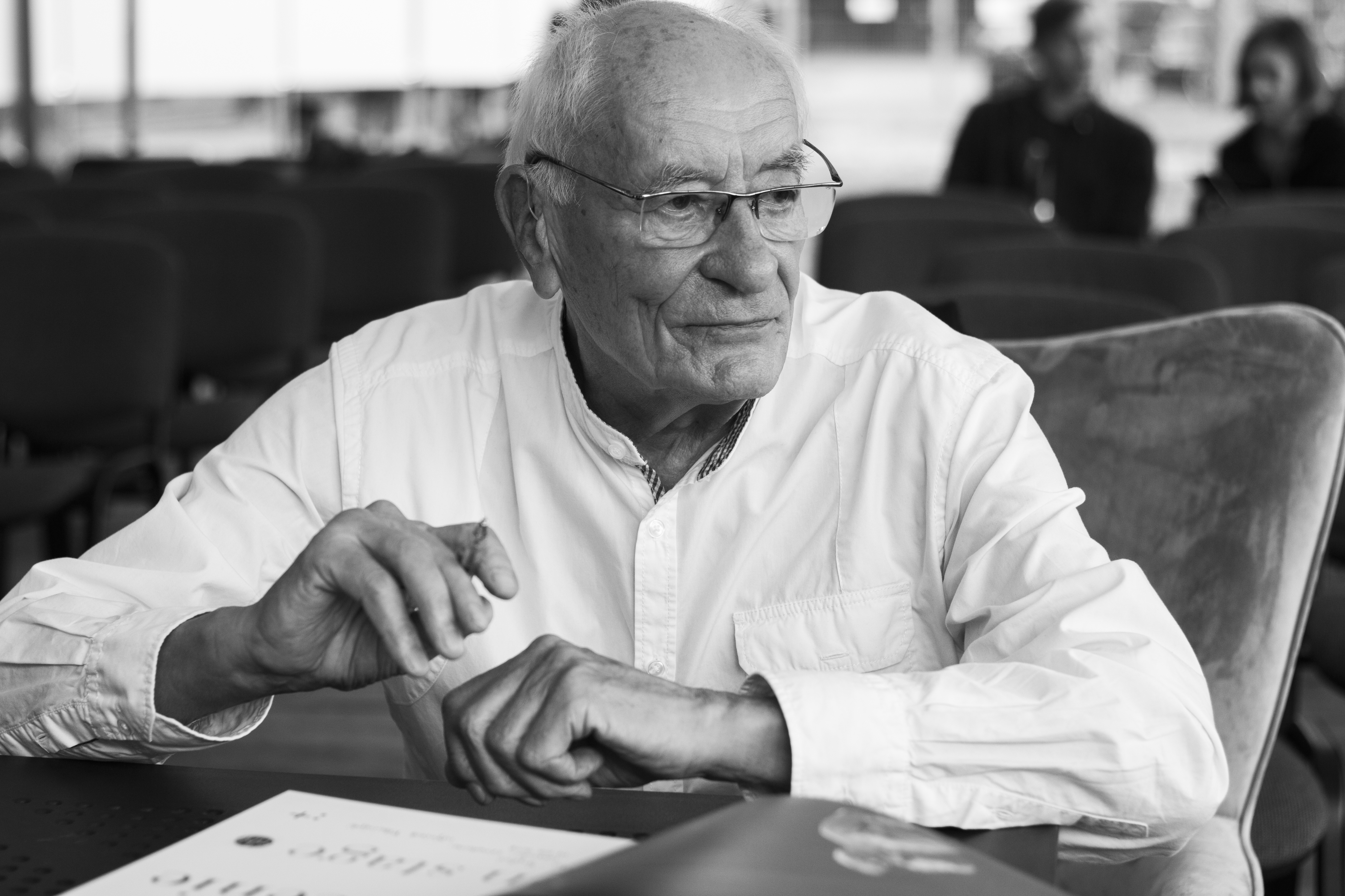 Wojciech Plewiński, Polish photographer, while signing the albums at the author's meeting at the Museum of Photography in Krakow in Wola Justowska.